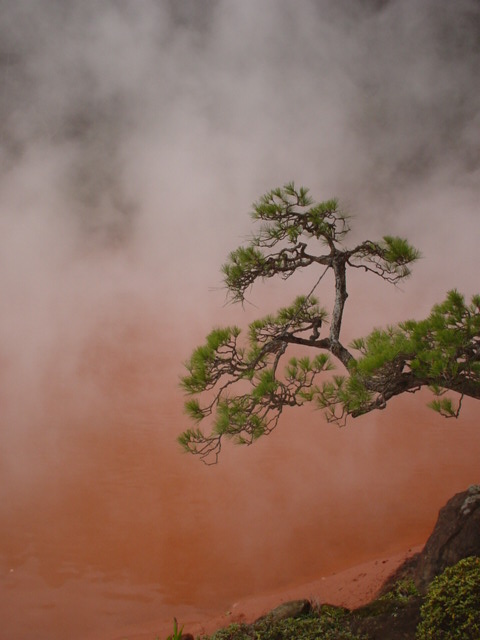 Natural Iron Hot Spring with Traditional "Bonsai" Tree in foreground. Taken in 2002 in Beppu City, Japan.